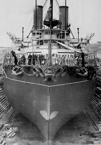 Bow of HMS Victoria in drydock at Malta.